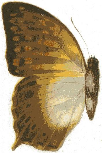 SeitzFaunaAfricana Charaxes fulvescens (Aurivillius, 1891)